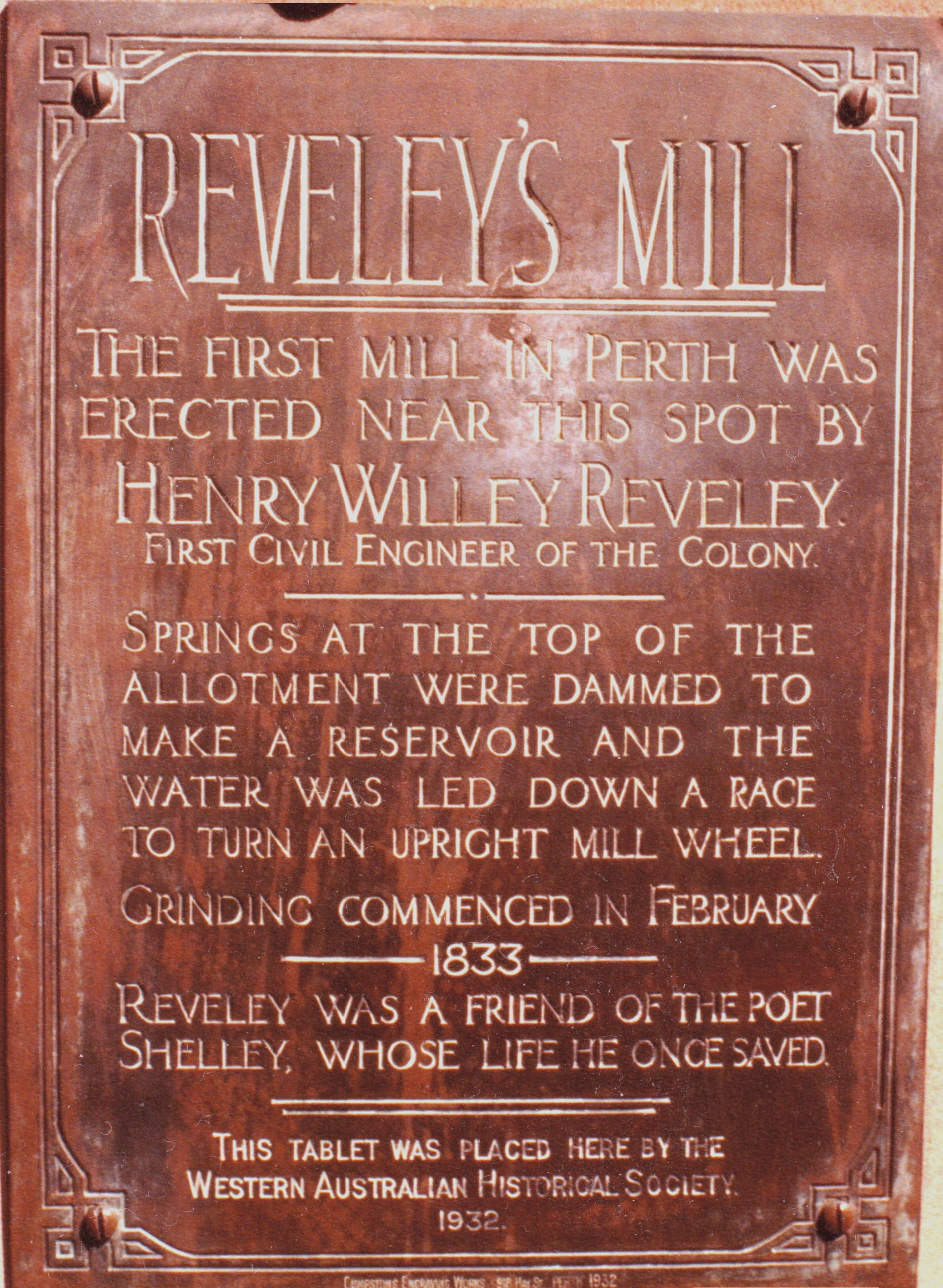 The plaque was created by the West Australian Historical Society in 1932 to commemorate the site's original ownership and development by Henry Willey Revely, the first civil engineer of the Swan River Colony. The photograph was taken in 1985 during the successful public campaign to save the 1910 Perth Technical School from demolition by the WA Inc Labor government. The plaque was removed during subsequent redevelopment and not restored.